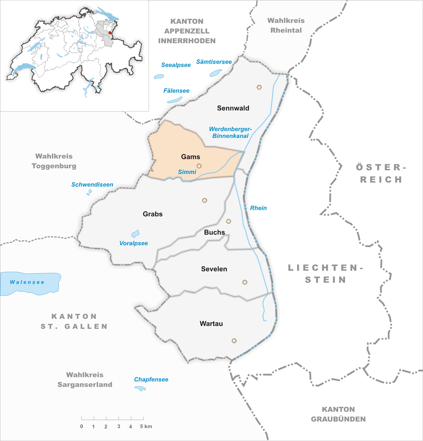 Municipality Gams